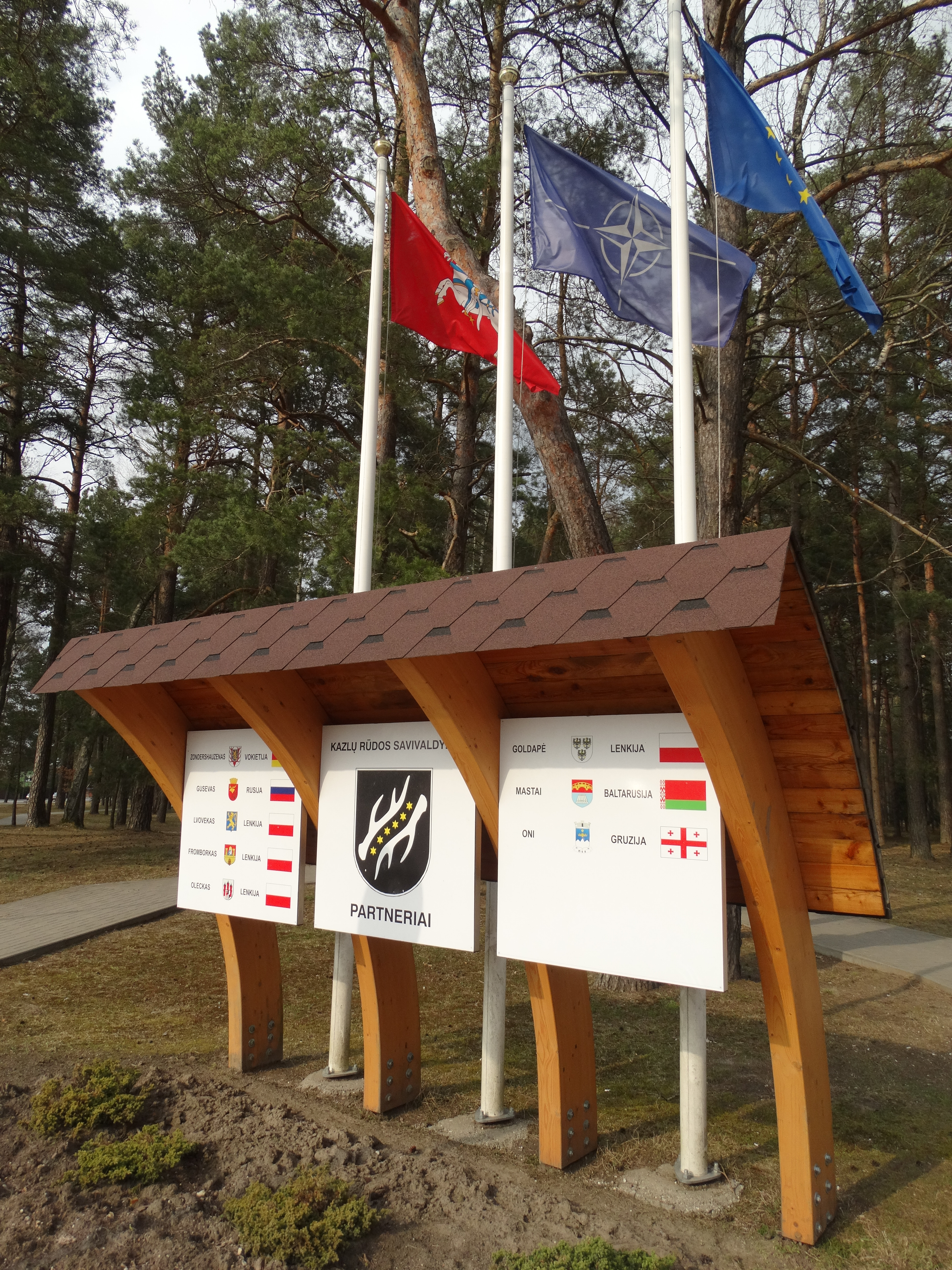 Twin towns, Kazlų Rūda, Lithuania